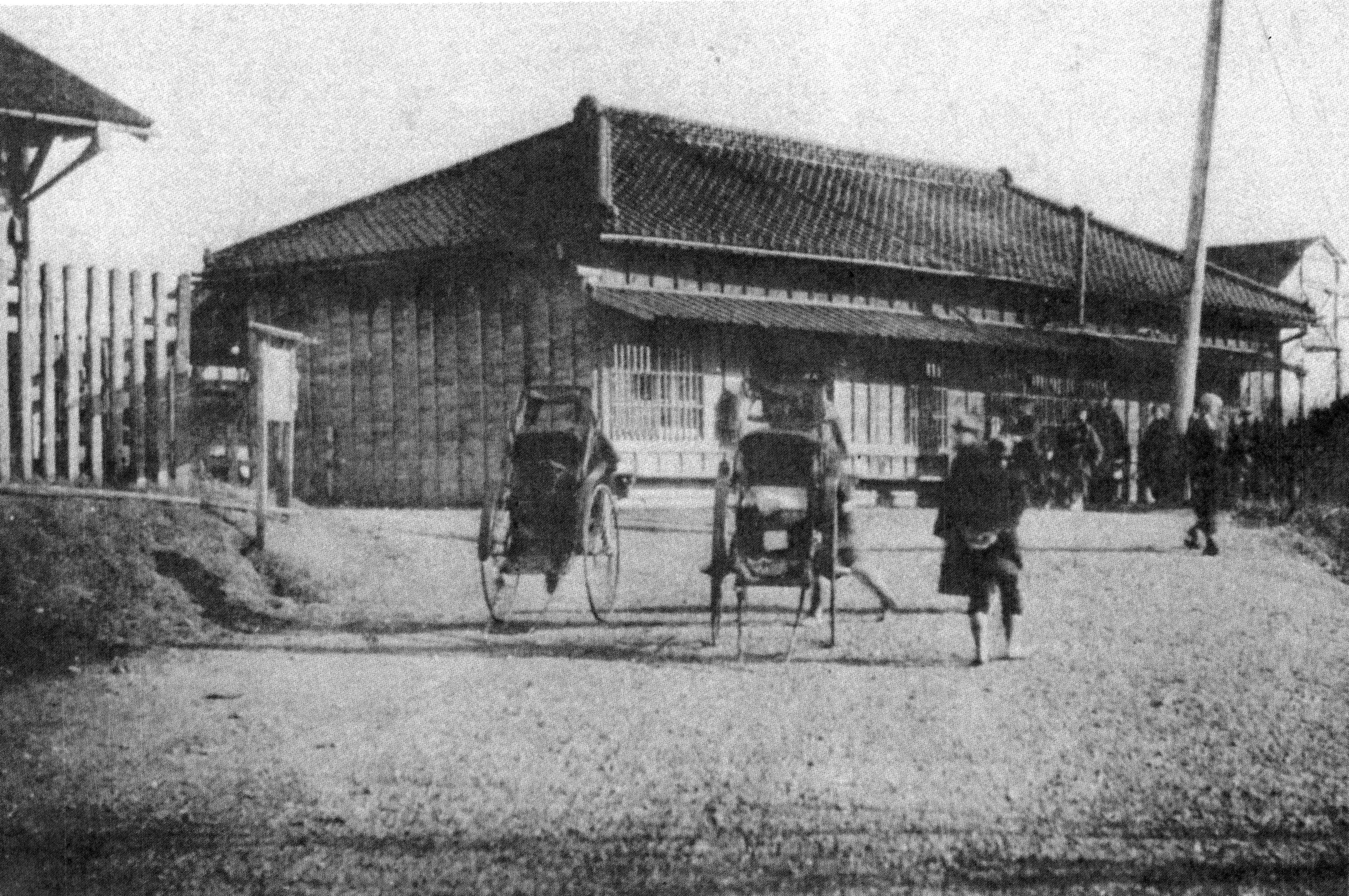 Totsuka railway station (present-day west gate) in Totsuka, Kanagawa before it was rebuilt in 1922